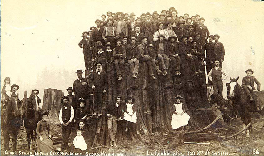 Caption on image: "Cedar stump 60 feet circumference, Sedro, Wash. 1890" Identical to LaRoche 545 with caption: "Cedar stump at Sedro, Skagit Co. 72 people on top" Subjects (LCTGM): Tree stumps--Washington State--Sedro Woolley Subjects (LCSH): Portraits, Group--Washington (State)--Sedro Woolley; Cedar--Washington (State)--Sedro Woolley